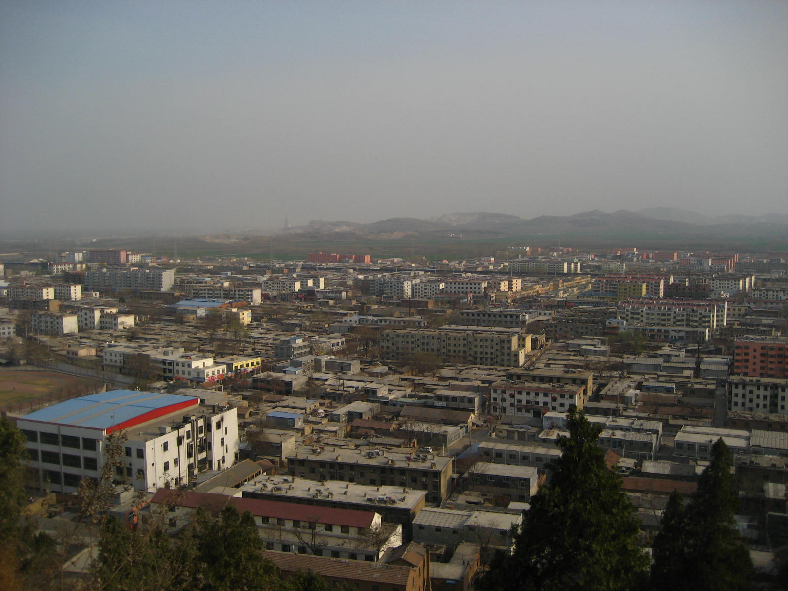 Jiaxiang, Jining prefecture, Shandong, People's Republic of China